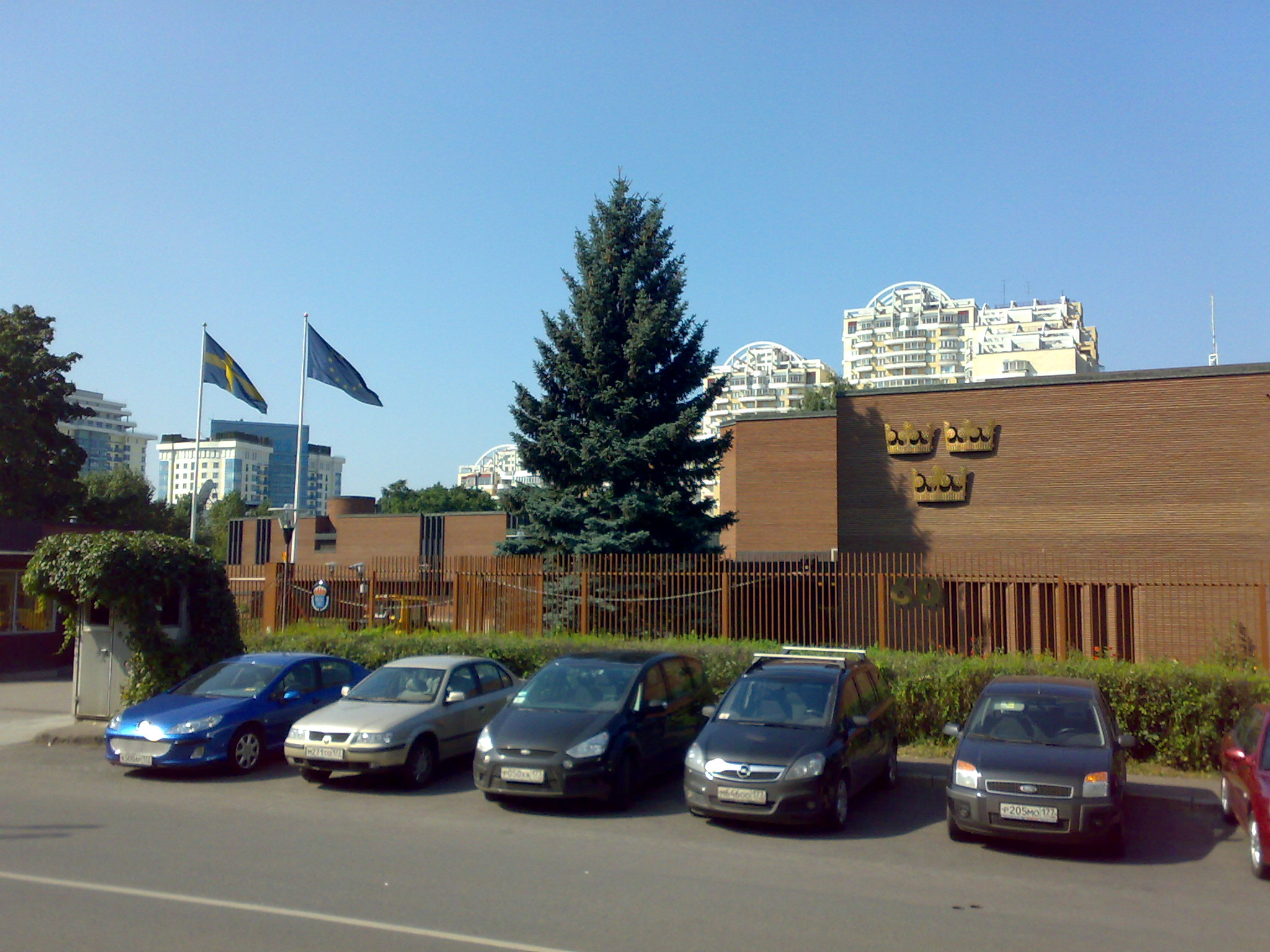 took this image using my mobile phone, on 4 September, 2008. The embassy of Sweden in Moscow.